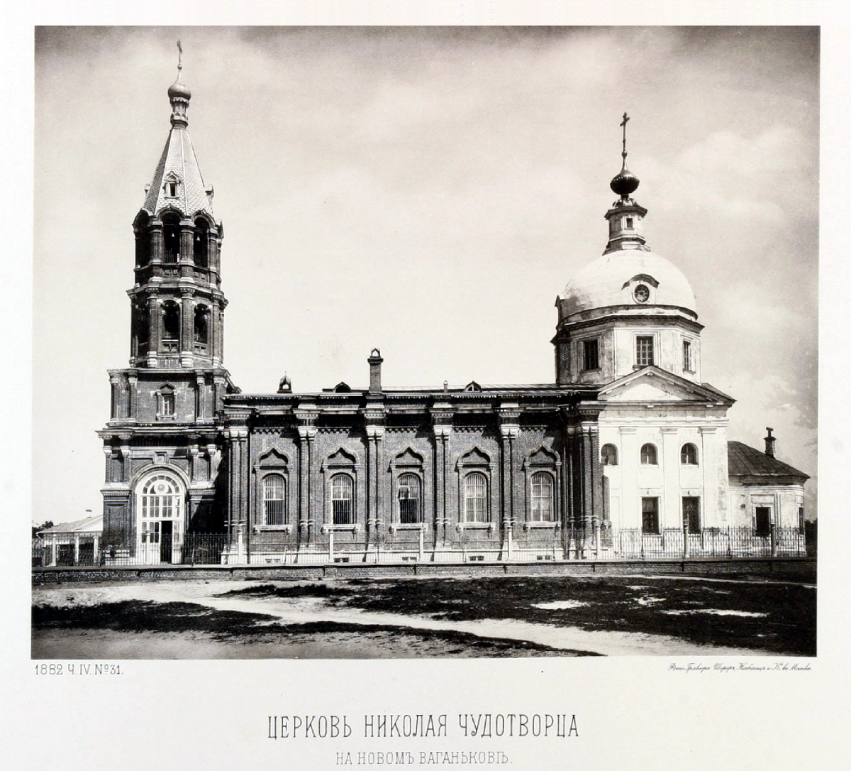 Church of St. Nicholas in Three Hills, Moscow.